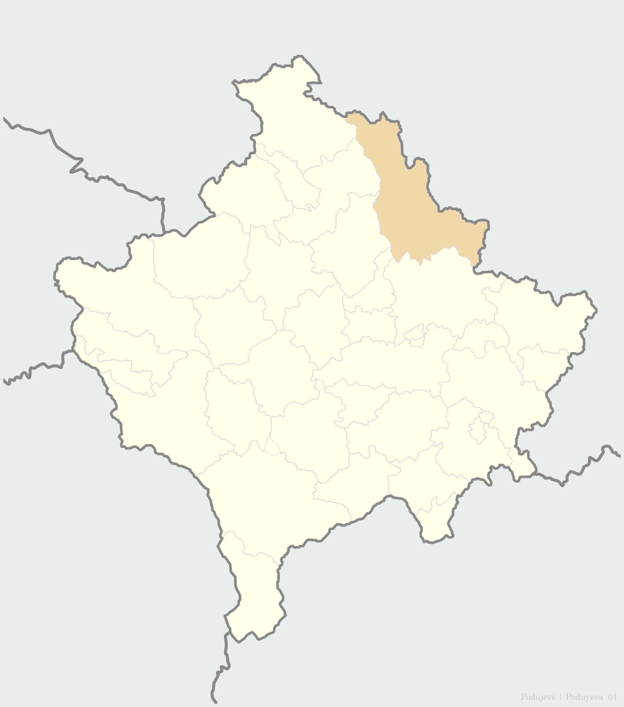 Municipality of Podujevo map